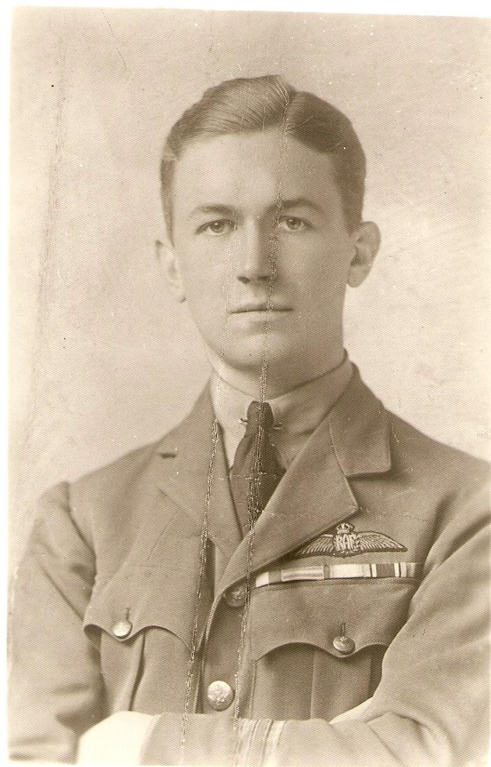 A picture taken during WWI